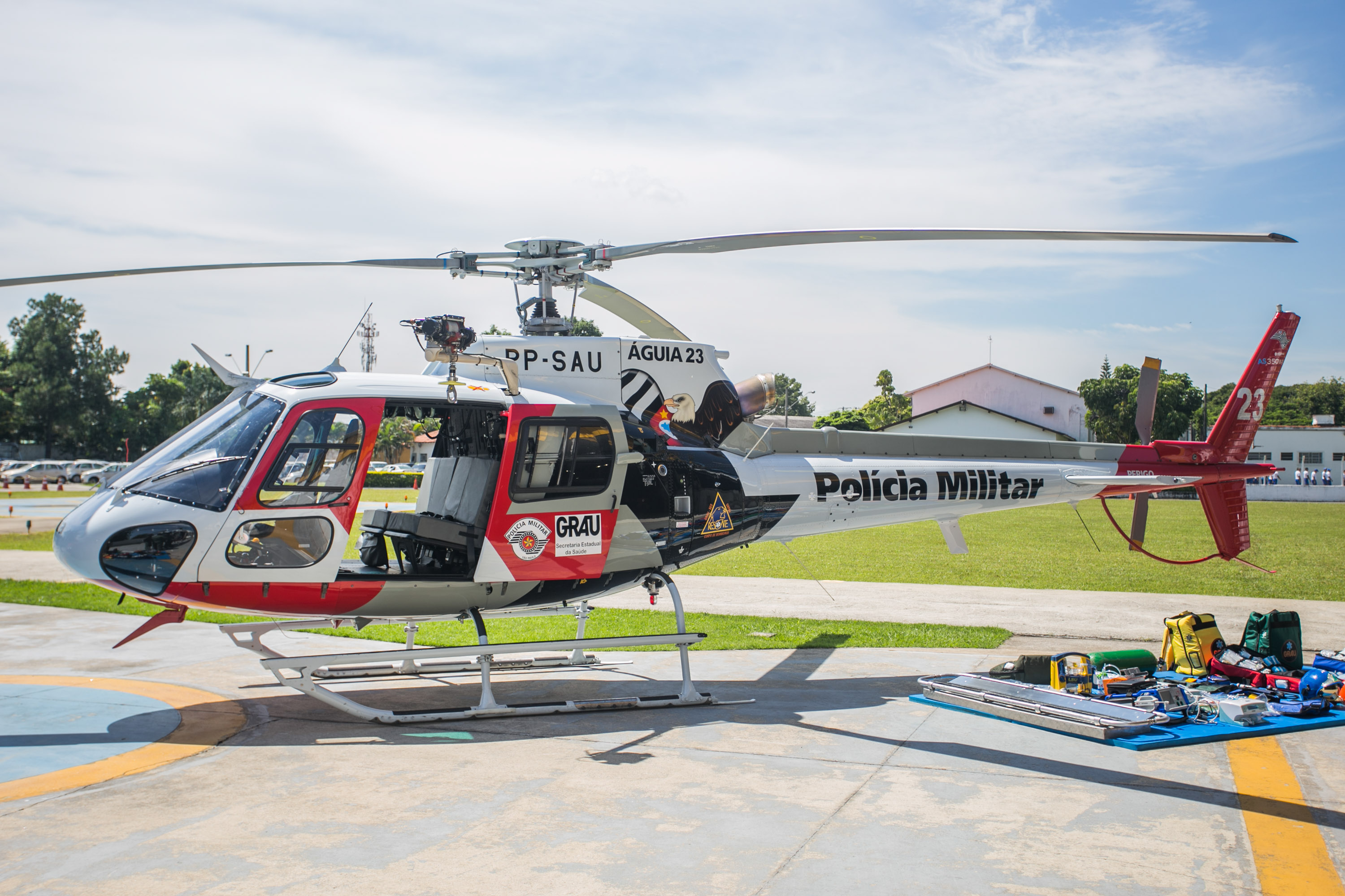 O governador Geraldo Alckmin durante entrega de aeronave ao Grupo de Resgate e Atenção as Urgências e Emergências (GRAU), grupo especializado no resgate médico estadual. Data: 27/03/2015. Local: São José dos Campos/SP.Foto: Edson Lopes Jr/A2AD